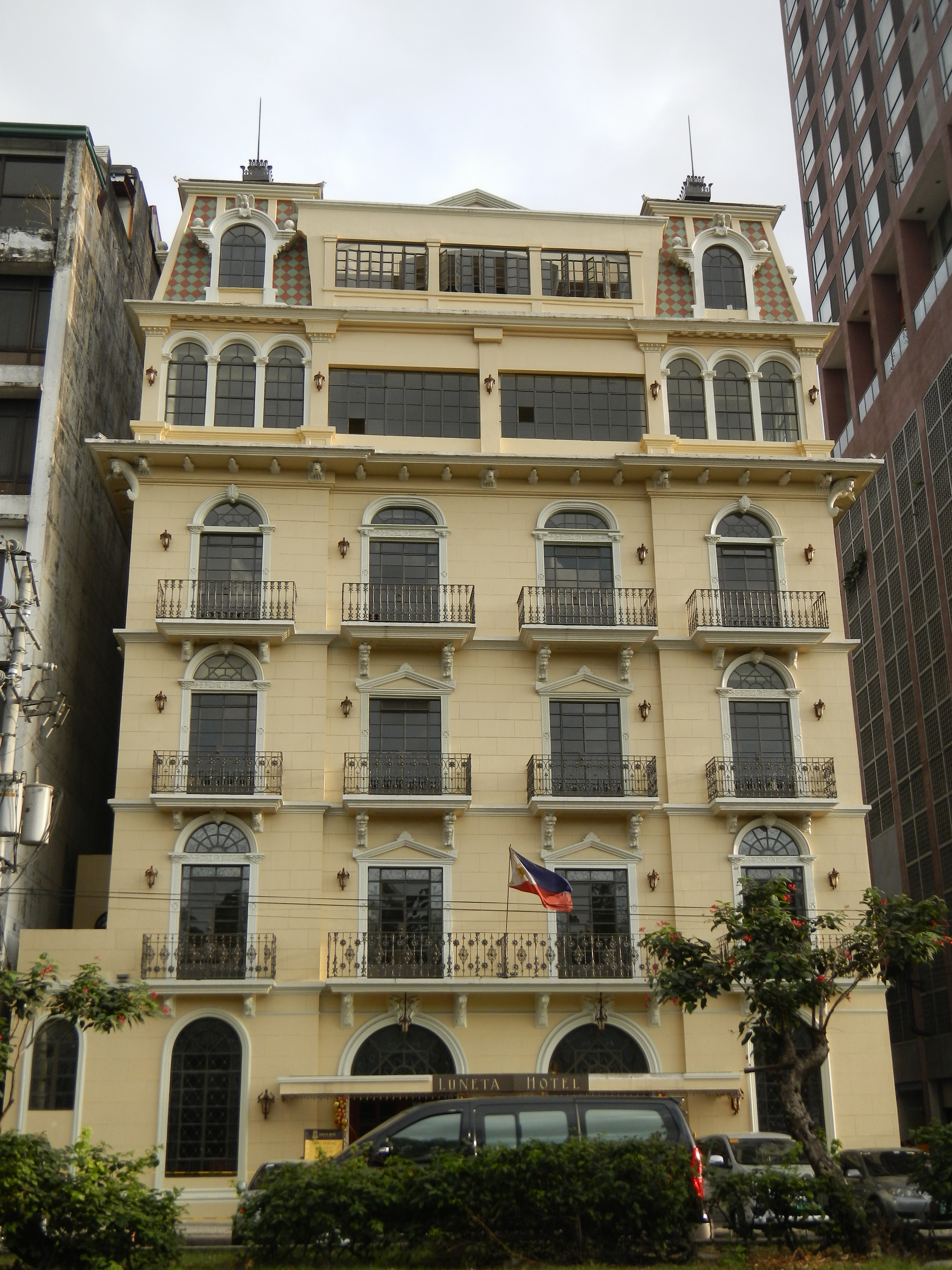 Upload Wizard of - Roxas Boulevard[1] cor. South Road and high rise buildings beside Rizal Park, at T.M. Kalaw Avenue, [2] Ermita, Manila [3] including - Luneta Theatre and Luneta Hotel, part of the List of Cultural Properties of the Philippines in Metro Manila[4]